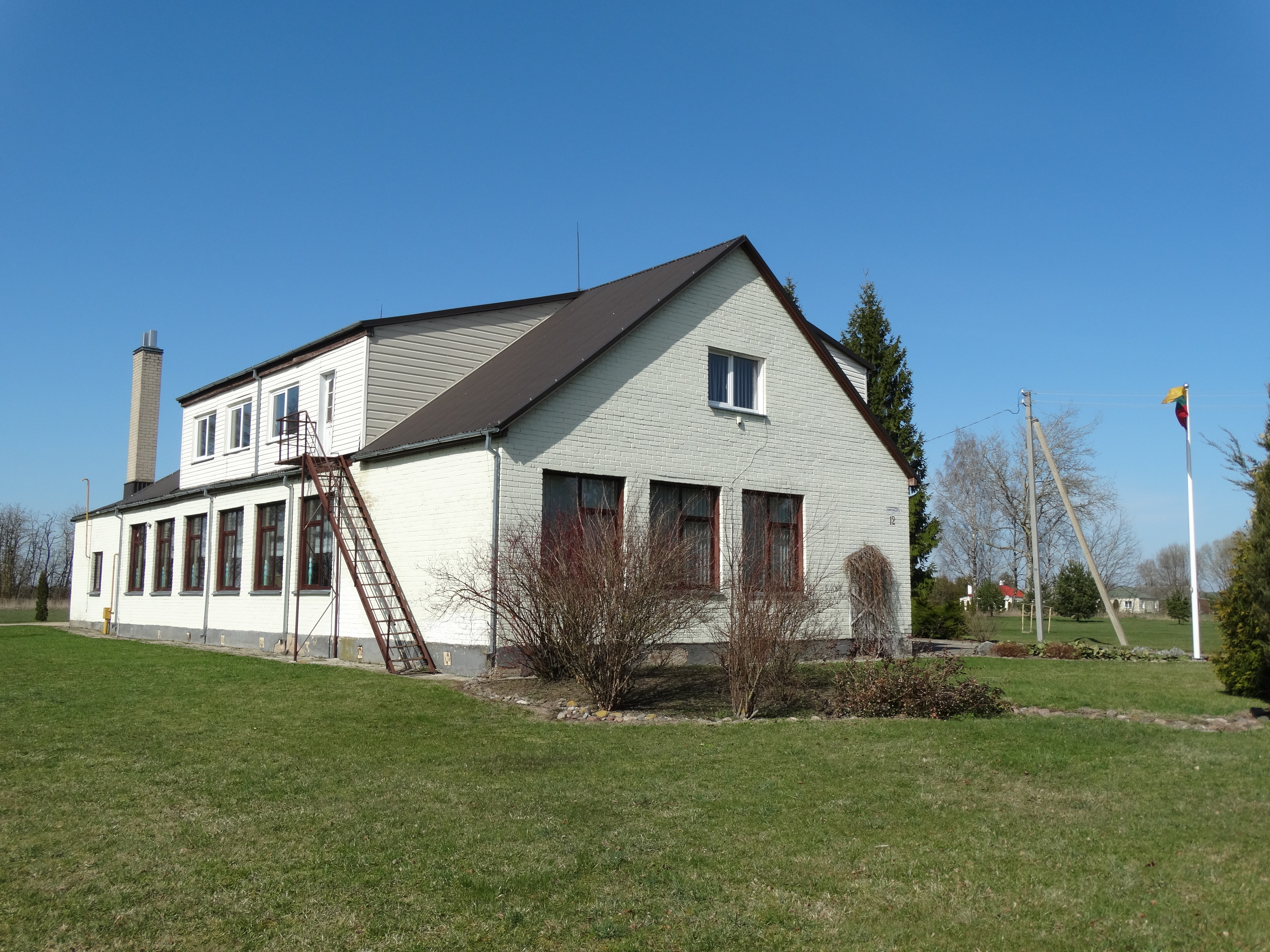 School, Jotainiai, Panevėžys District, Lithuania